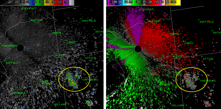 Reflectivity (left) and Doppler (right) returns from a Wind Farm about 30 miles southeast of the KBUF NEXRAD weather radar in Buffalo, NY. The radar has a sophisticated clutter/interference removal scheme, however the scheme was designed to filter out spurious returned (reflected) energy that has little or no motion. This is effective for removing the returned signals from terrain, buildings, and other non-moving structures. Unfortunately, the radar sees the rotating wind turbine blades as targets having reflectivity and motion, hence processes these returns as weather.